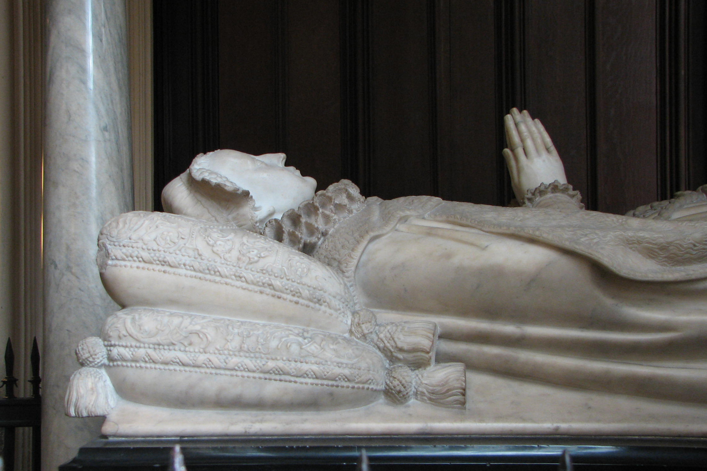 Tomb of Mary, Queen of Scots in Westminster Abbey, London, England